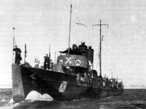 Royal Romanian escort torpedo boat Smeul.